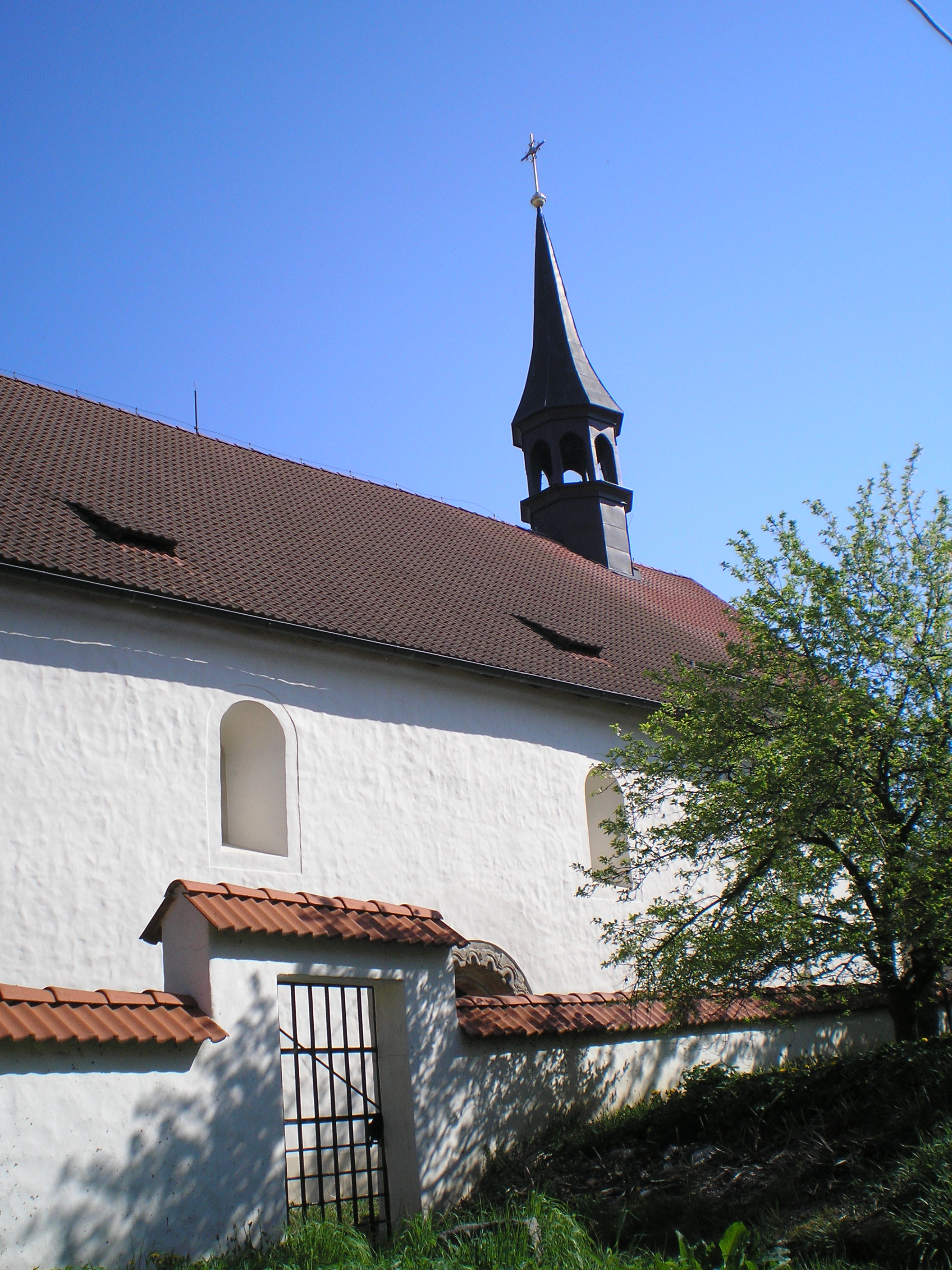 Church of SS Peter and Paul in Planá, Tachov District, Czech Republic.